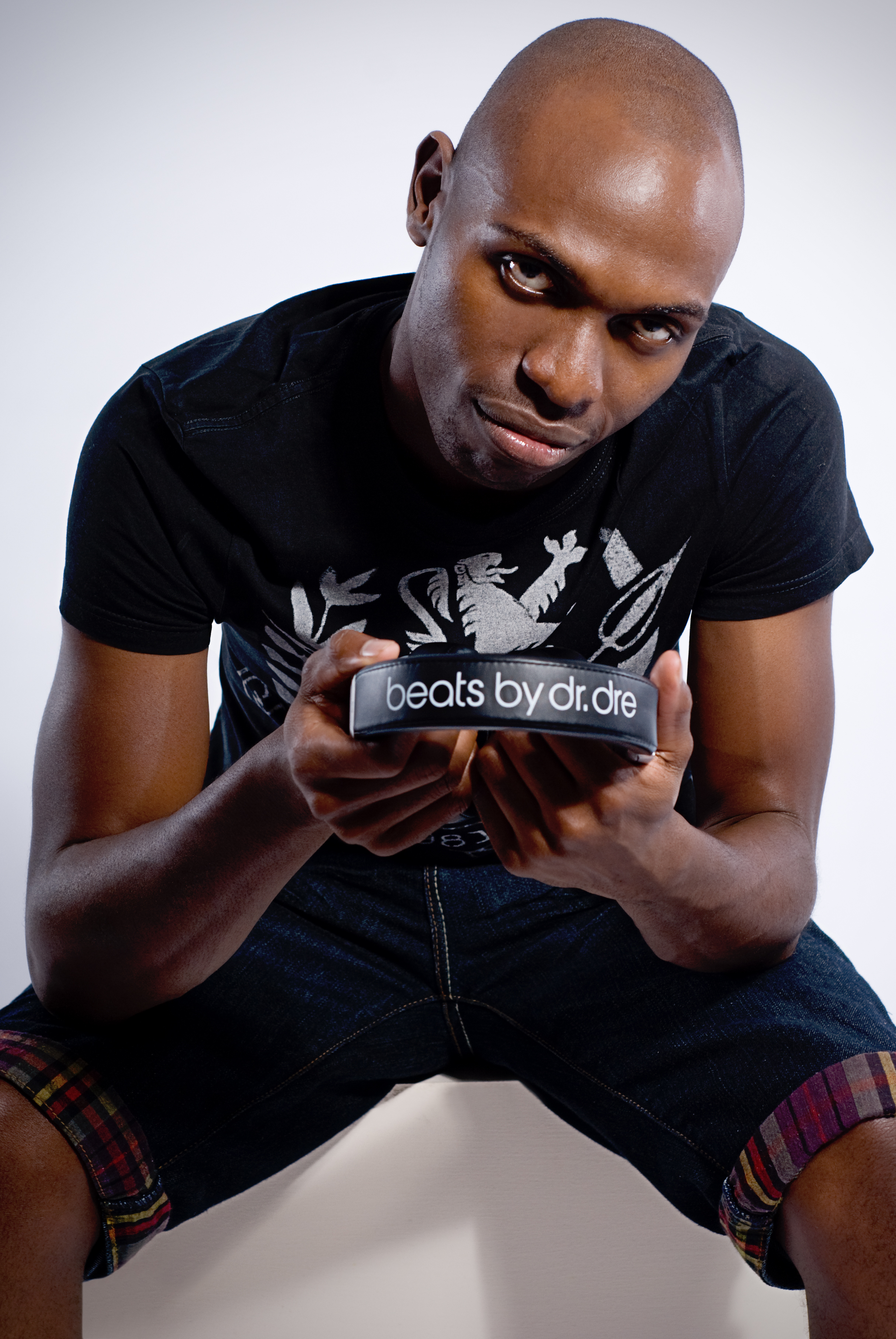 DJ Qness at the "Beats by Dr. Dre" promo shoot in 2011, Johannesburg North, South Africa